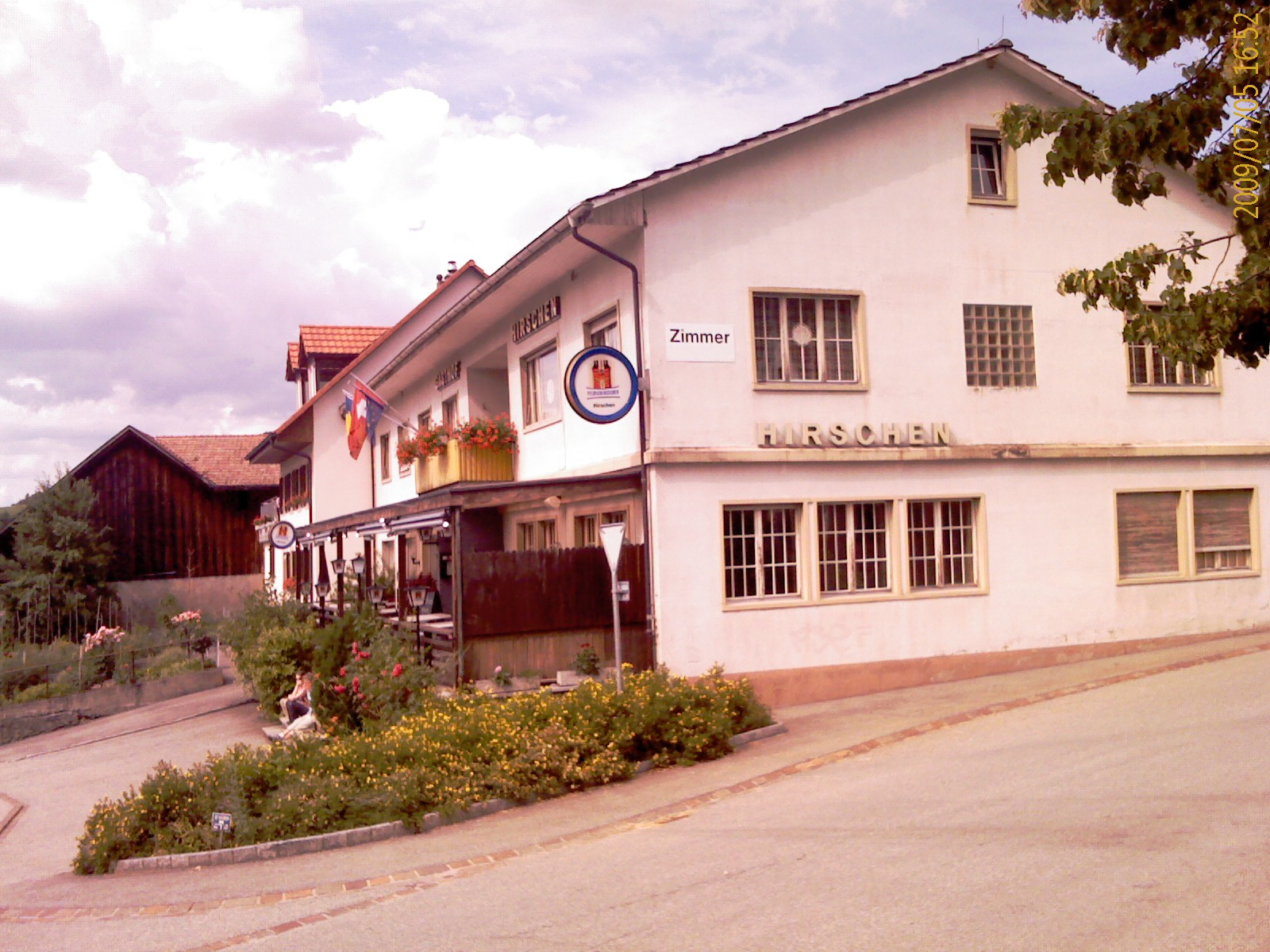 Gasthof Hirschen at Kienberg, canton of Solothurn, SwitzerlandEsperanto: Gastejo Hirschen en Kienberg, Kantono Soloturno, Svislando